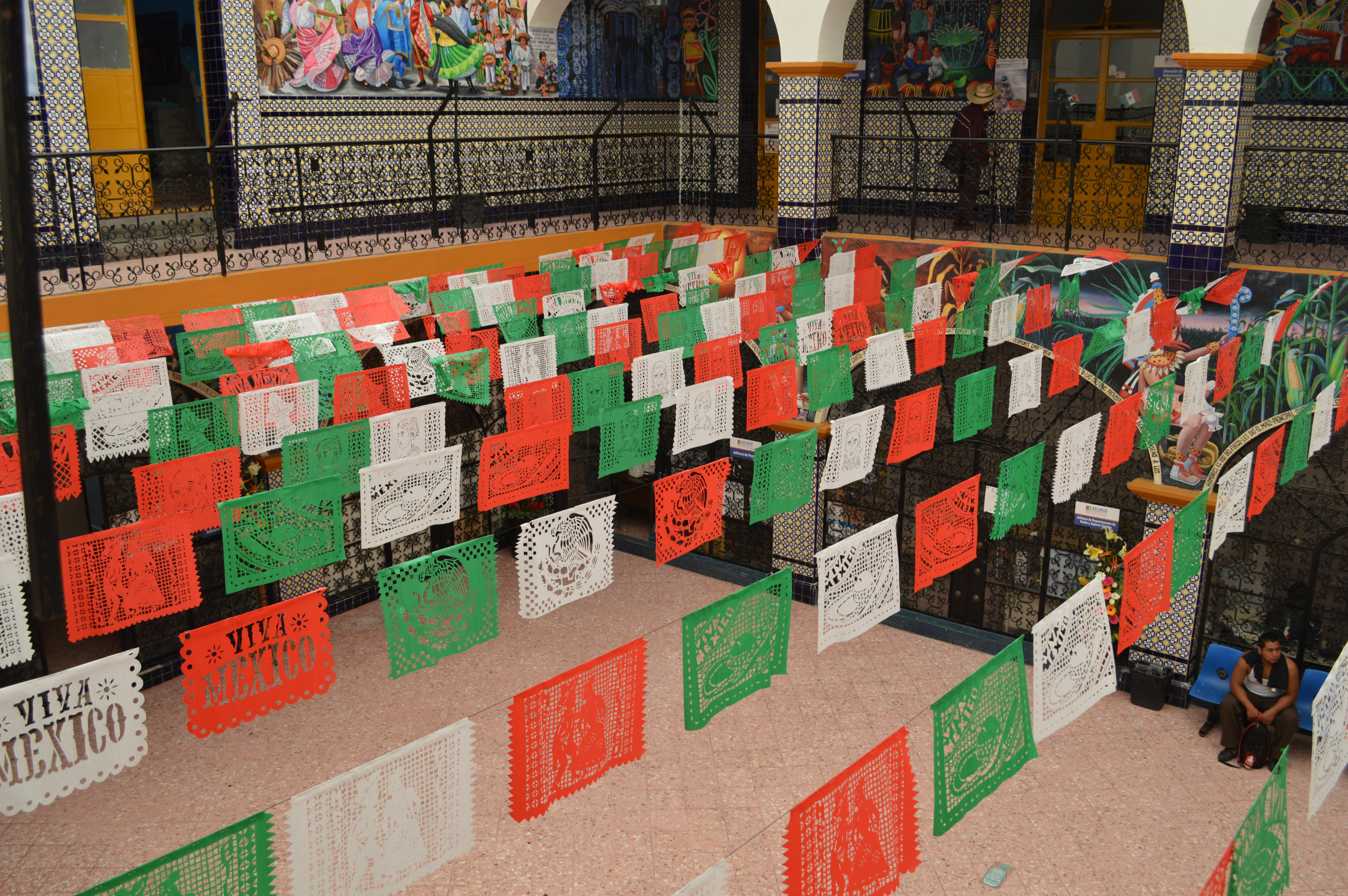 Papel picado decorations for Independence Day inside the muncipal palace of Atlixco, Puebla, Mexico